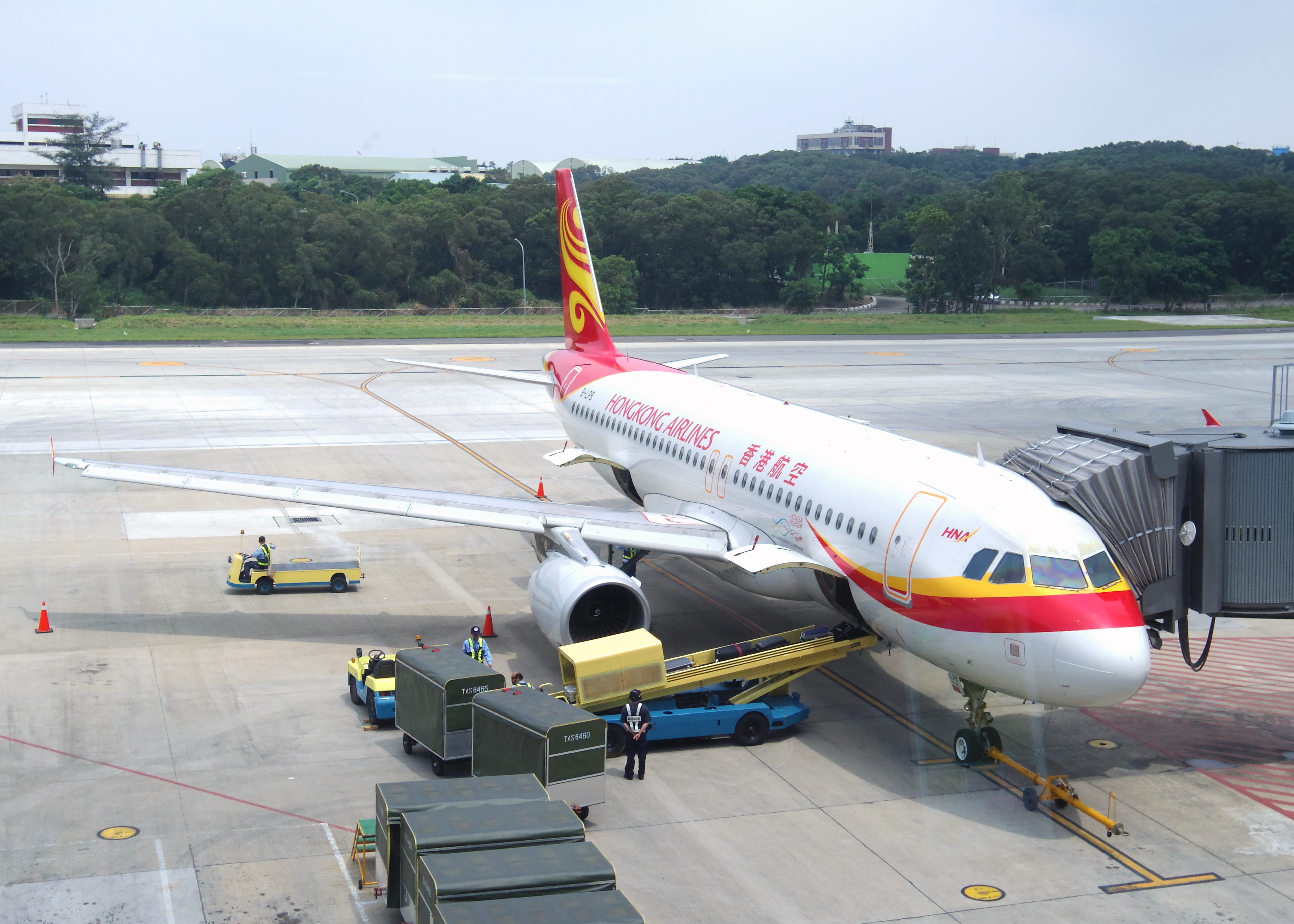 A Hong Kong Airlines Airbus A320-214 (B-LPB) at Taichung Ching-Chuan-Kang Airport